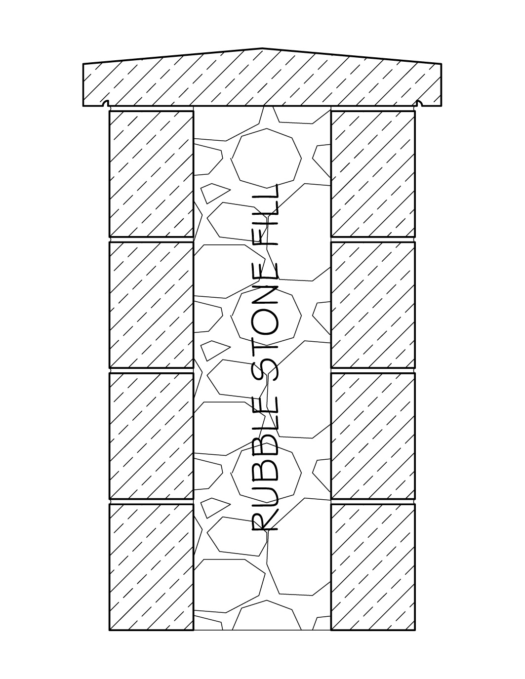 Cross section of rubble-fill wall